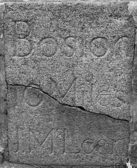 Mile Marker 10 from Boston placed by John McLean in 1823